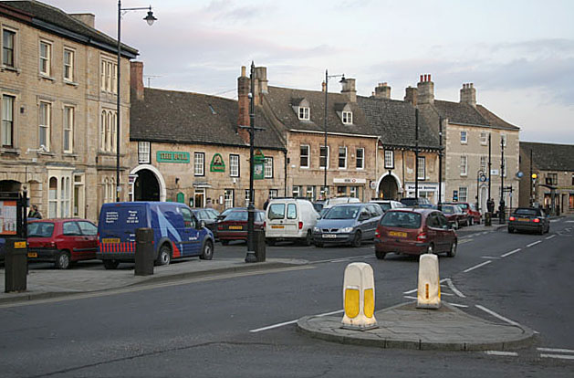 The Market Place, Market Deeping